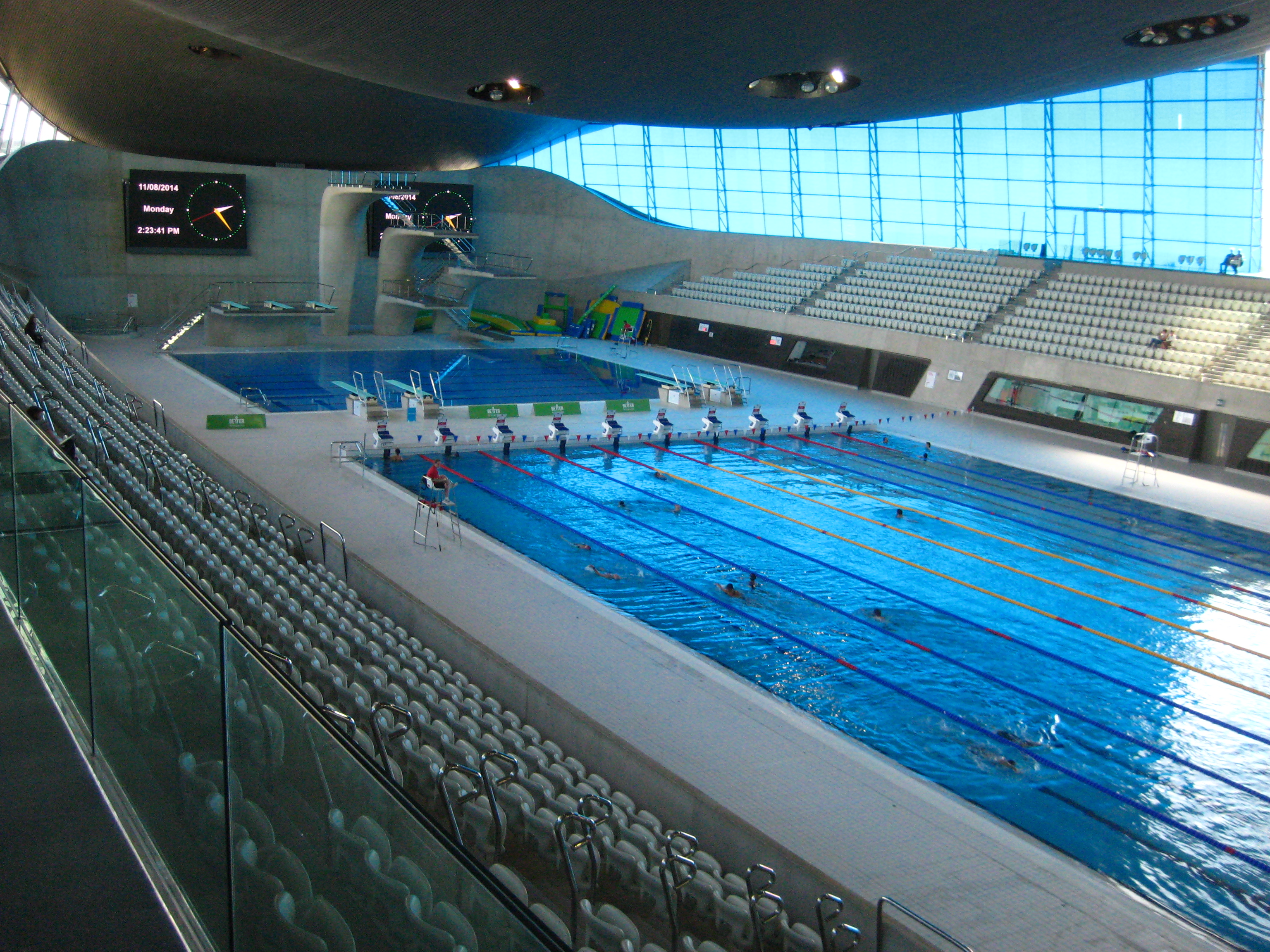 Interior of the London Aquatics Centre in August 2014